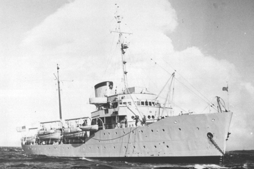 The United States Coast and Geodetic Survey "ocean survey ship" (OSS) USC&GS Explorer (OSS 28) at anchor.